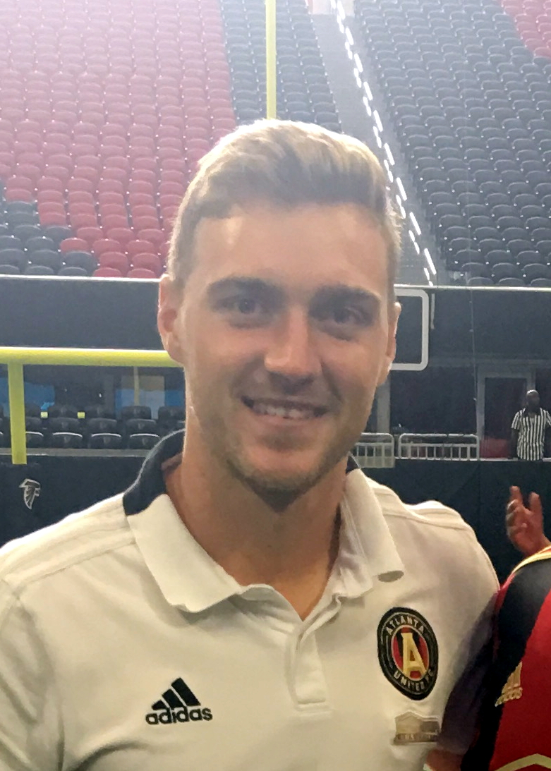 Julian Gressel, player for Atlanta United